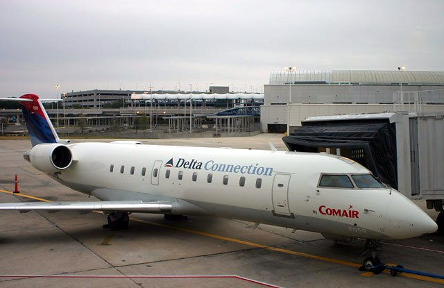 Comair (Delta Connection) CRJ-100ER N941CA at Jacksonville International Airport, Jacksonville, Florida. Parked at the gate the day a computer failure grounded all Comair flights.